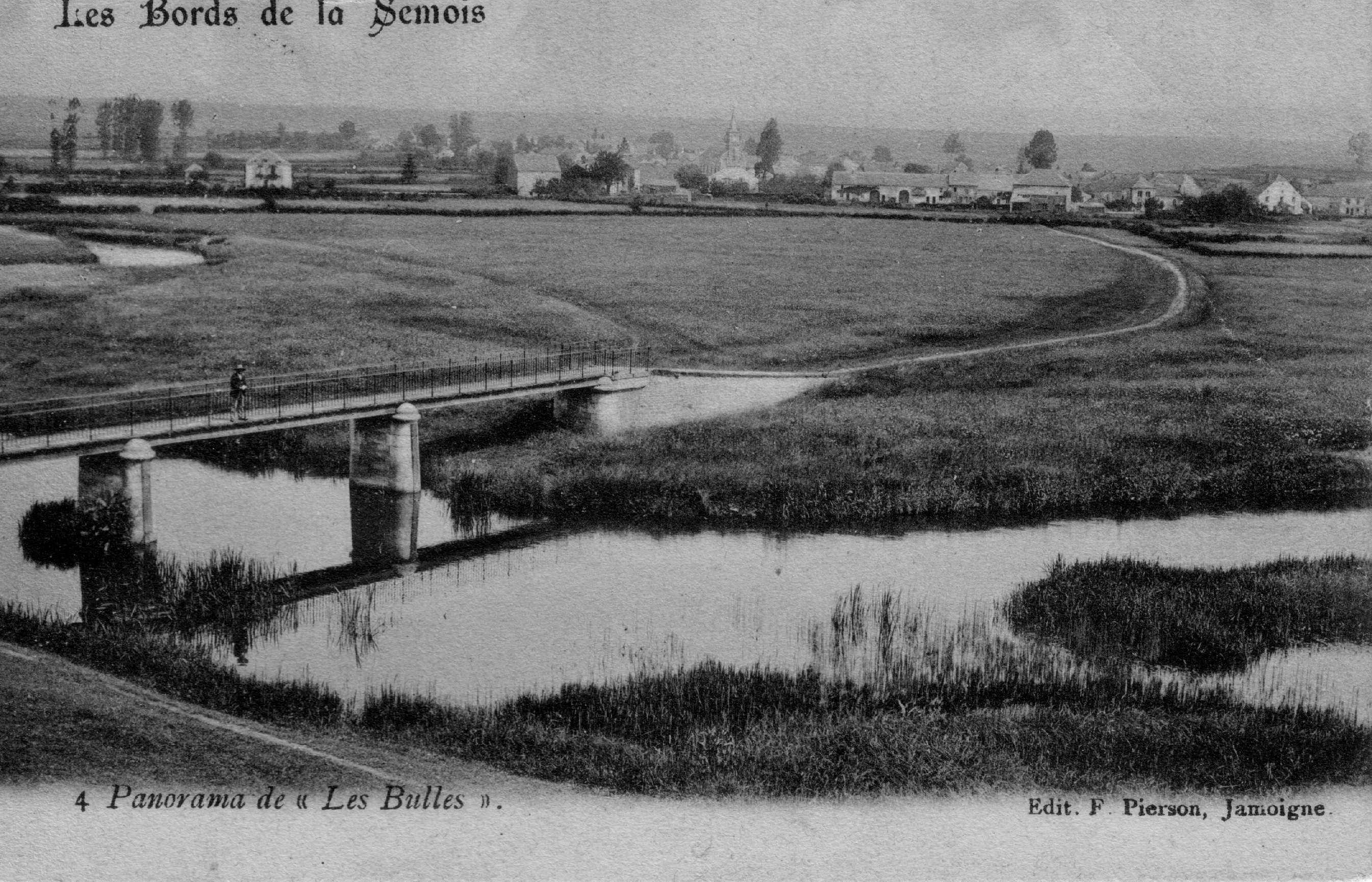 Panorama of Les Bulles, Chiny, Belgium, near the Semois.